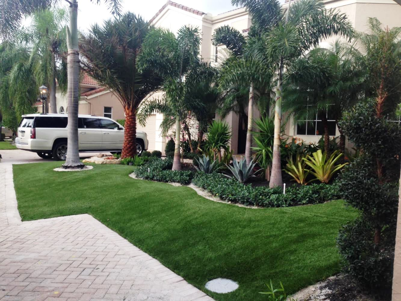 A beautiful Florida home with artificial grass.